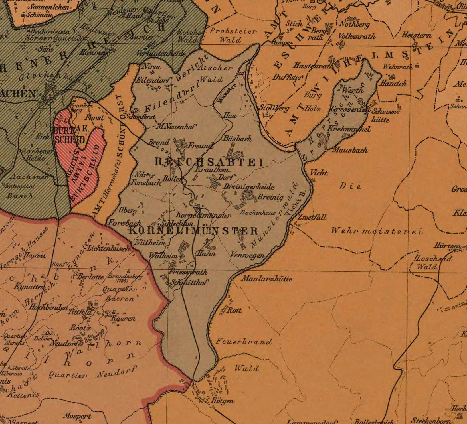 Kornelimünster (Germany) in 1789